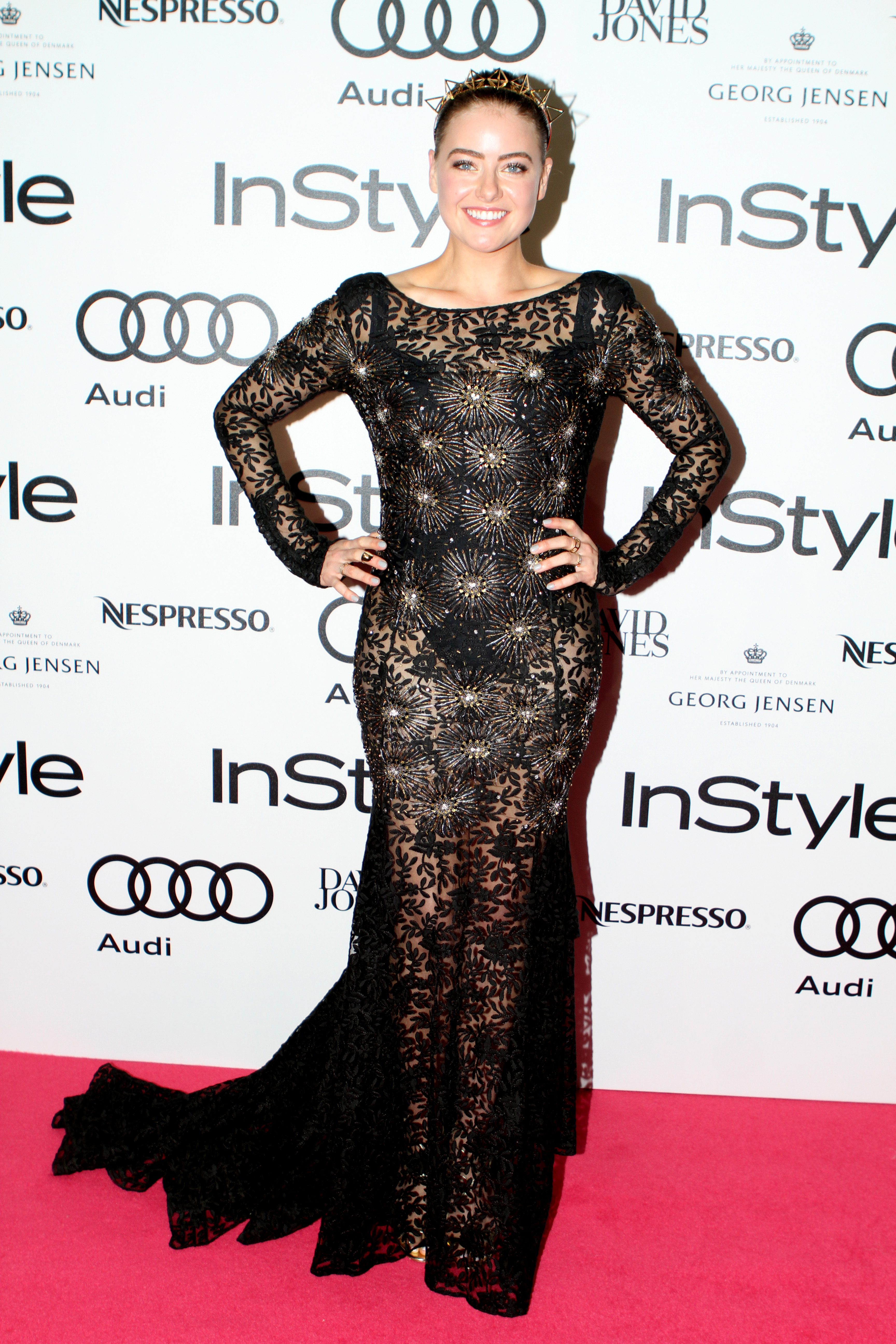 Instyle Awards 2015 InStyle and Audi Host Seventh Annual Woman Of Style Awards Red Carpet Gala Event